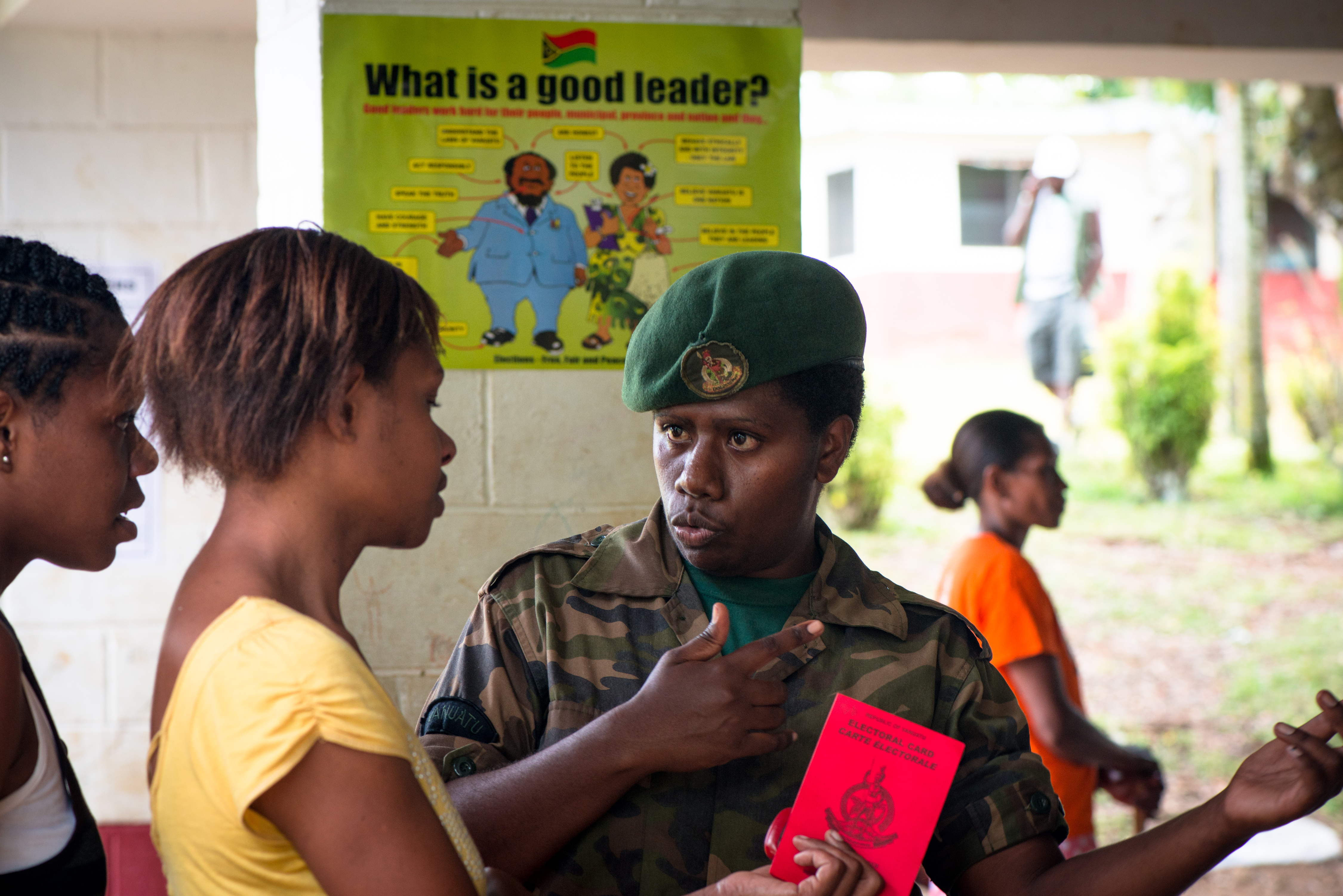 Some shots taken on polling day in Vanuatu's 2012 general election.